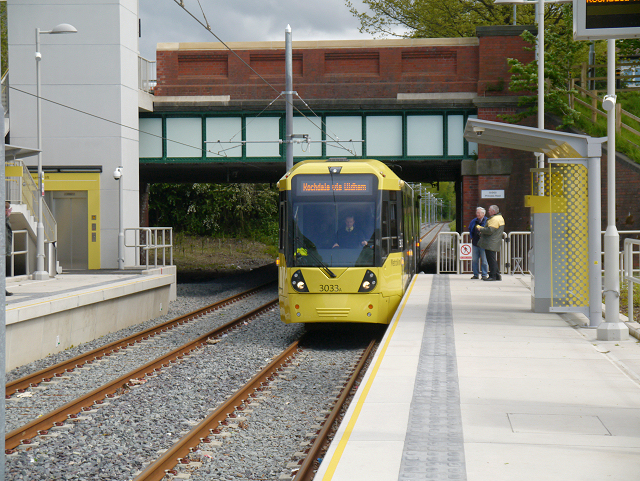 Metrolink Bombardier M5000 tram number 3033 passes under Princess Road as it approaches the new Withington stop, heading towards Rochdale from East Didsbury on the first day of operation for the latest extension to the South Manchester Metrolink line. The Metrolink line to East Didsbury, which runs off road, along a disused railway track, opened to passenger service on Thursday 23 May, several months ahead of schedule. The 4.4km (2.7 miles) extension to the existing South Manchester line has five new stops, with services calling at Withington, Burton Road, West Didsbury, Didsbury Village and East Didsbury.